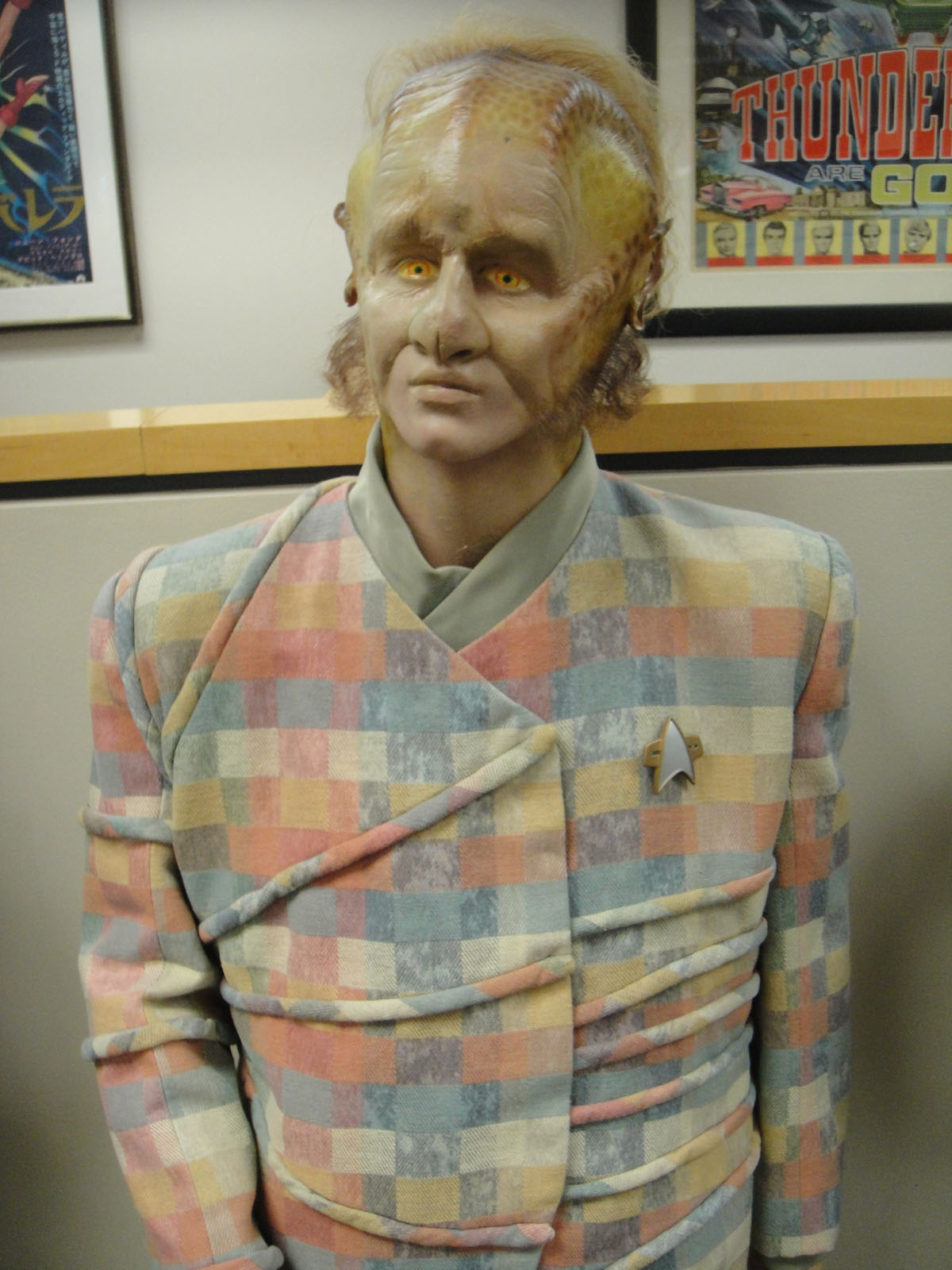 photo 2012 taken by Doug Kline If you're interested in higher resolution versions of my images, contact me via my profile page.